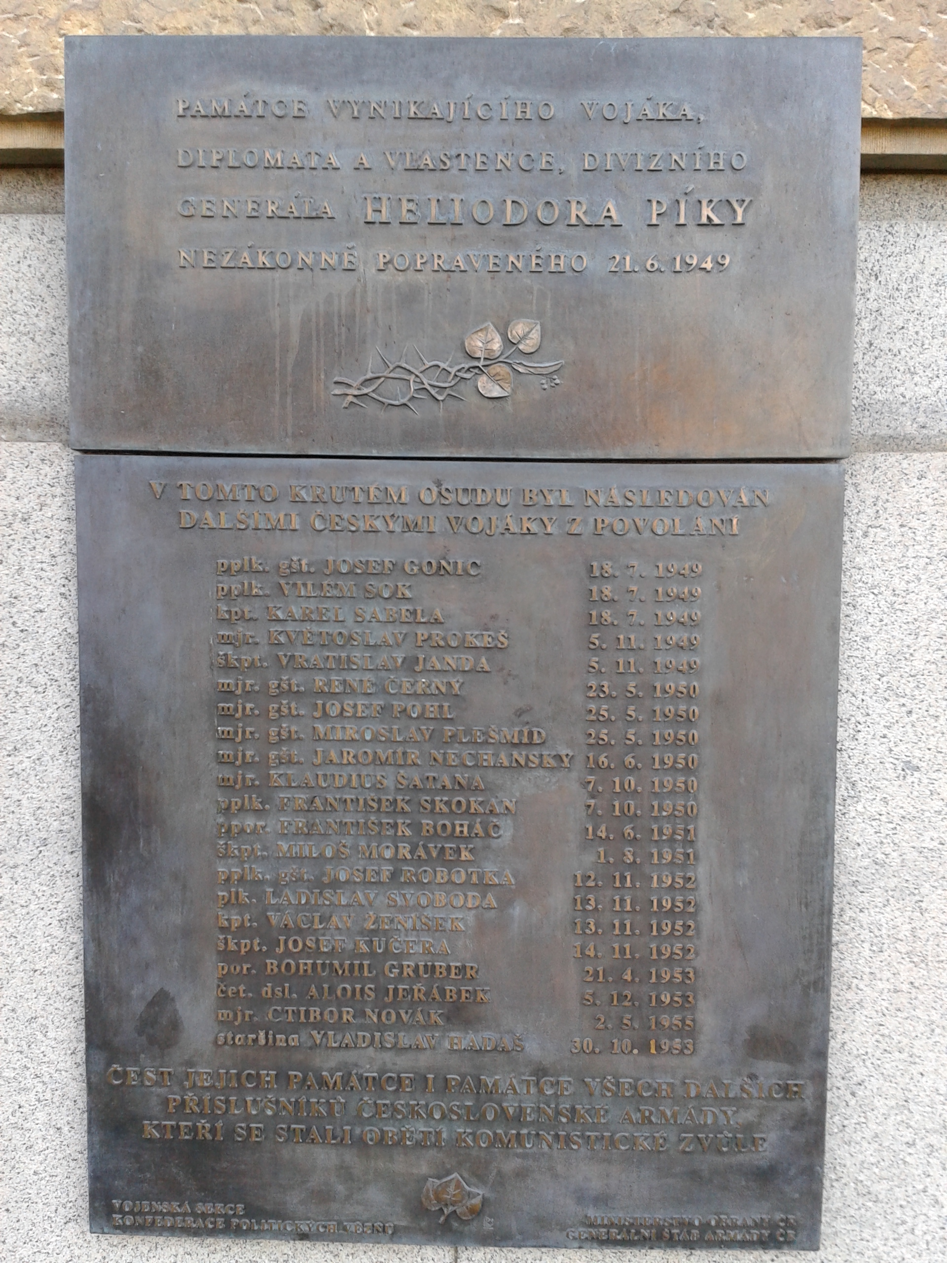 Memorial plaque situated on the left side of the main entrance to the historic building of the General Staff of the Army of the Czech Republic (ACR General Staff), (Victory Square 1500/5, 160 00 Prague 6 - Dejvice).